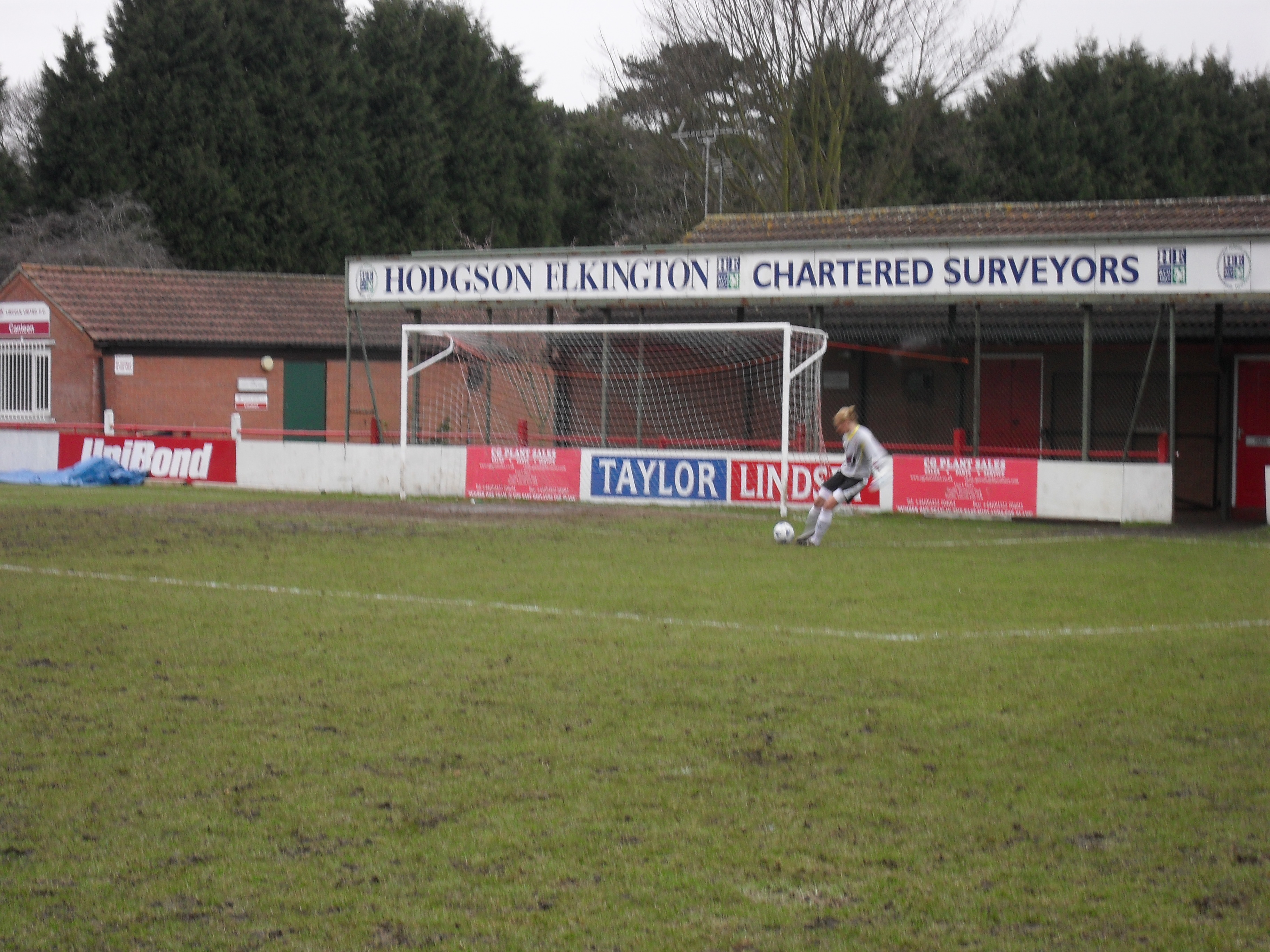 Ashby Avenue football stadium, February 2010. Kay Hawke of Lincoln Ladies takes a goal kick.